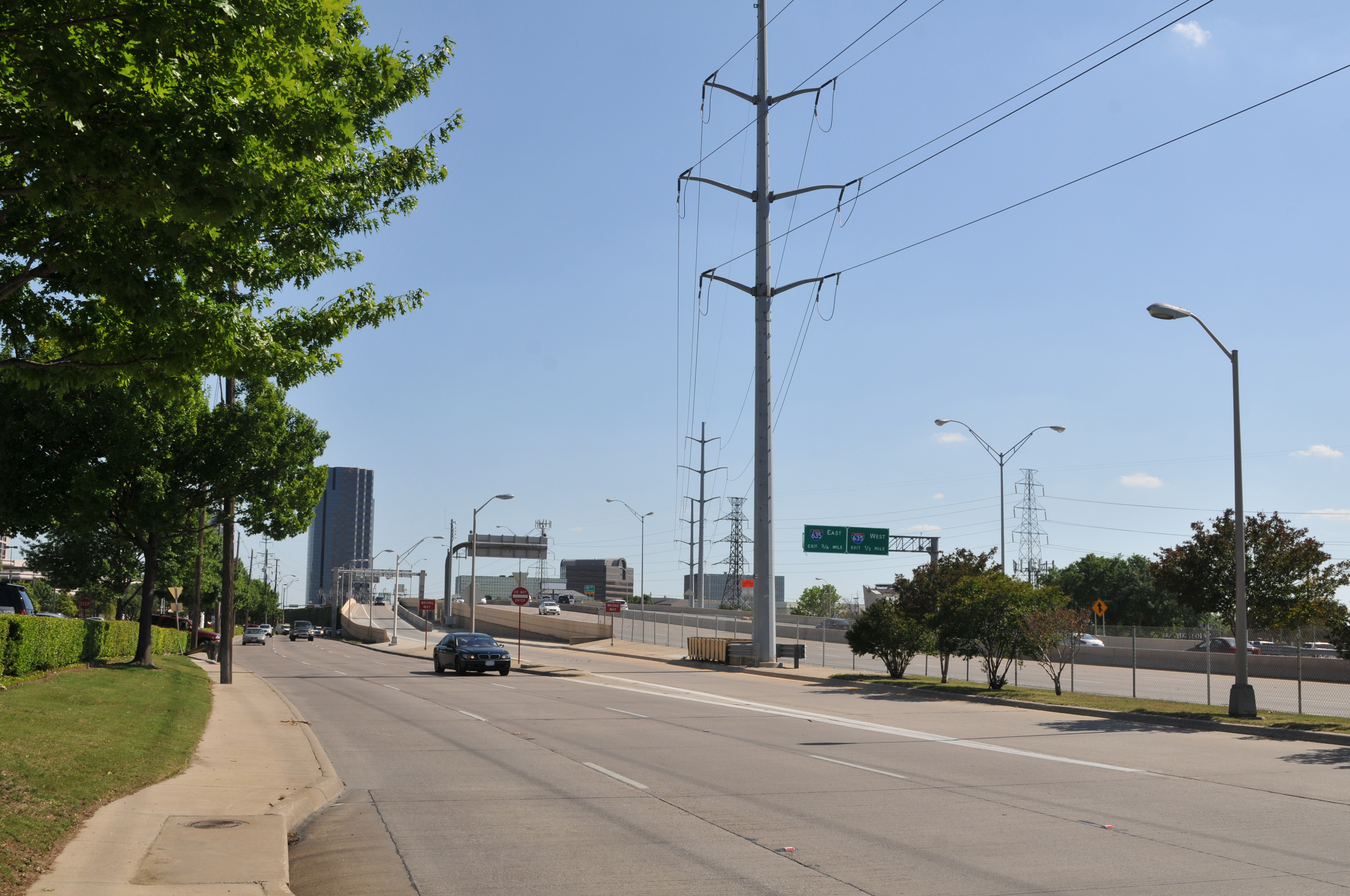 Dallas North Tollway intersection Alpha Road just north of IH635